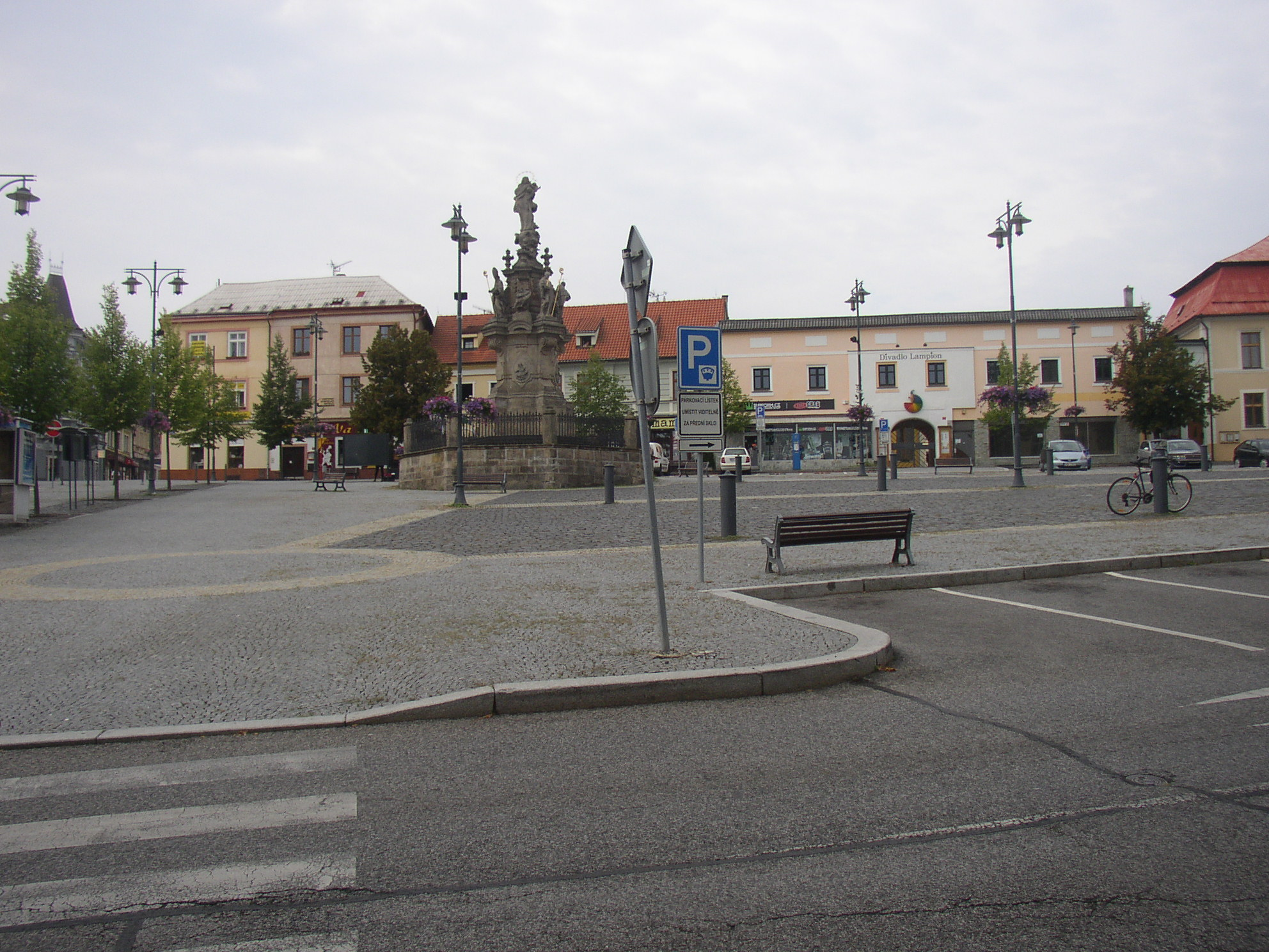 Mayor Pavel Square in Kladno, Czech Republic. Southern half of western side with Marian column and puppet theatre.